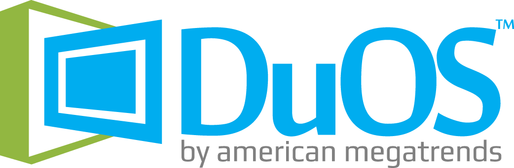 amiduoslogo